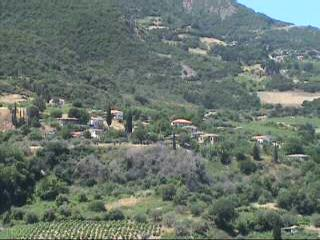 Mageira Achaias